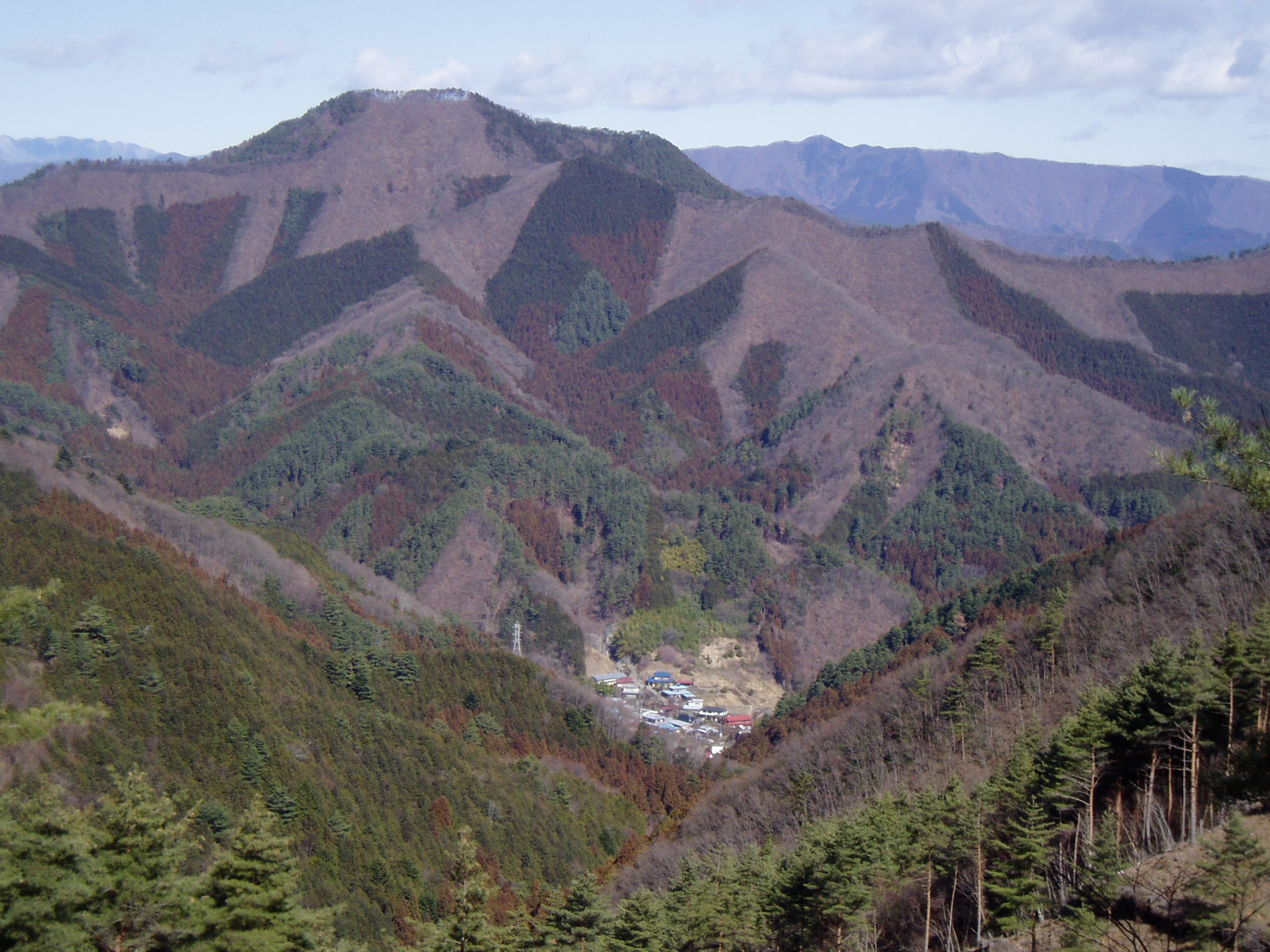 Mount Kuratake-yama from the south, near Sansho-taira